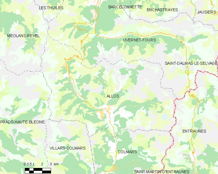 Map commune FR insee code 04006.png Légende